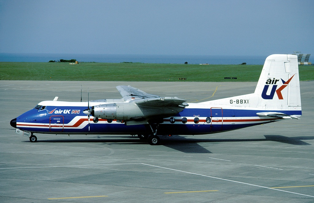 Air UK Handley Page HPR-7 Herald 203 G-BBXI at Jersey Airport